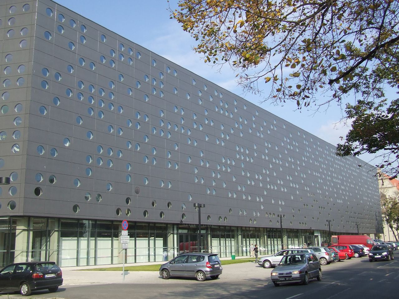 Wrocław University of Technology, C-13 building